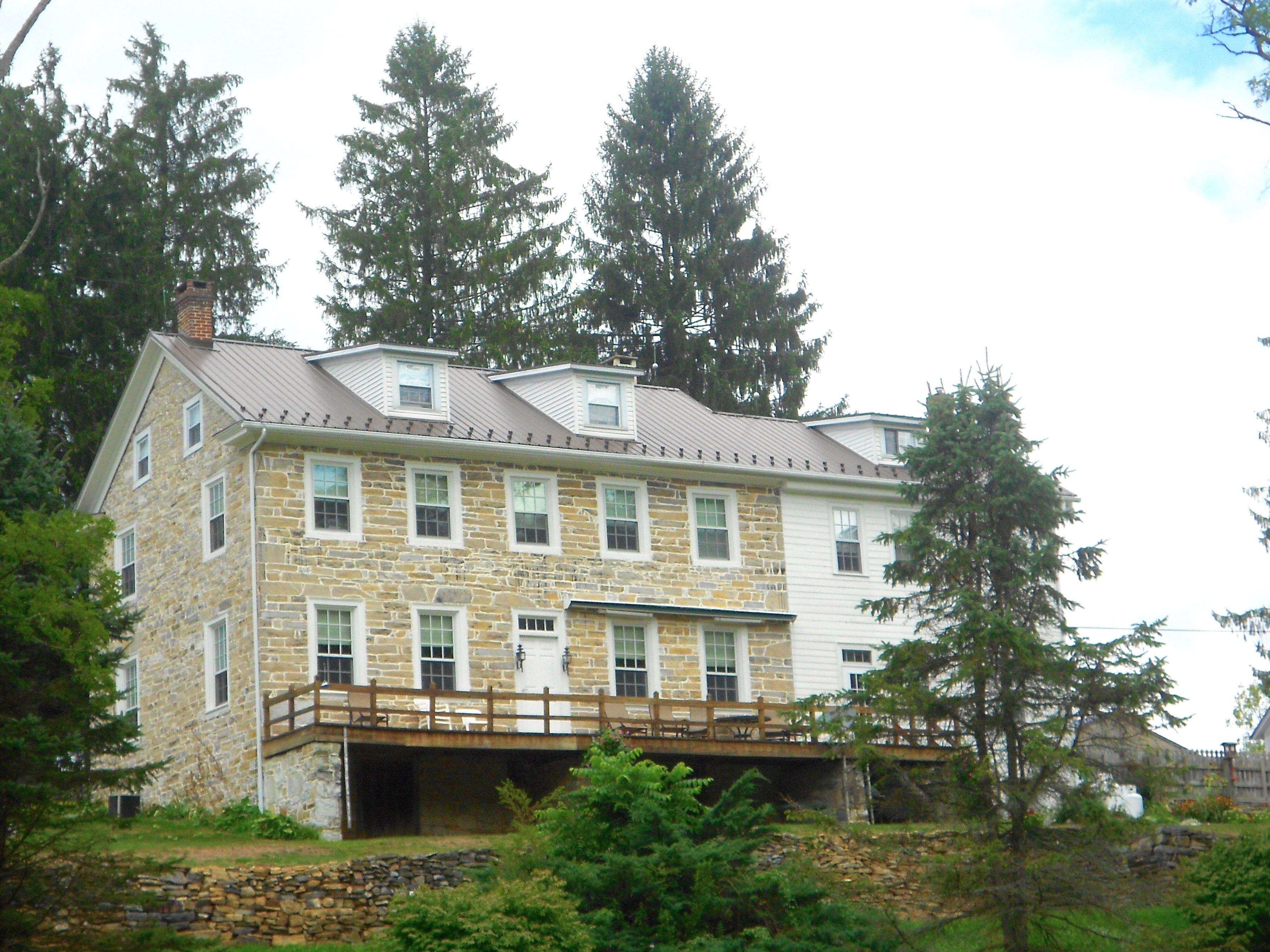 Centre Mills listed on the NRHP on December 12, 1976 Southwest of Rebersburg off Pennsylvania Route 445, Miles Township, Centre County, Pennsylvania